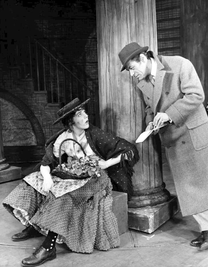 Photo of Julie Andrews and Rex Harrison from My Fair Lady. Eliza Doolittle, the flower girl, meets Professor Henry Higgins.